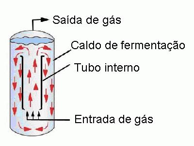 Desenho Esquemático do Biorreator Airlift